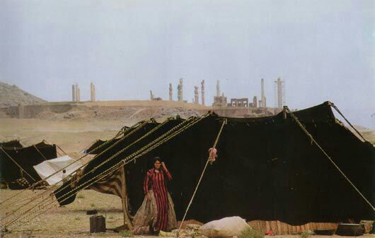 A Basseri woman in Persepolis